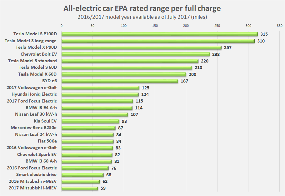 Comparison of EPA rated range for electric cars available in the U.S. market as of July 2017, model year 2016 and 2017. Tesla Motors vehicles included correspond to the variants with the longest and shortest range for each model (Tesla Model S and Tesla Model X). Data sources: MY 2016 & 2017 from Energy Efficiency & Renewable Energy, U.S. DoE; and Tesla Motors EPA estimate for the two battery options of the Tesla Model 3 release in July 2017.